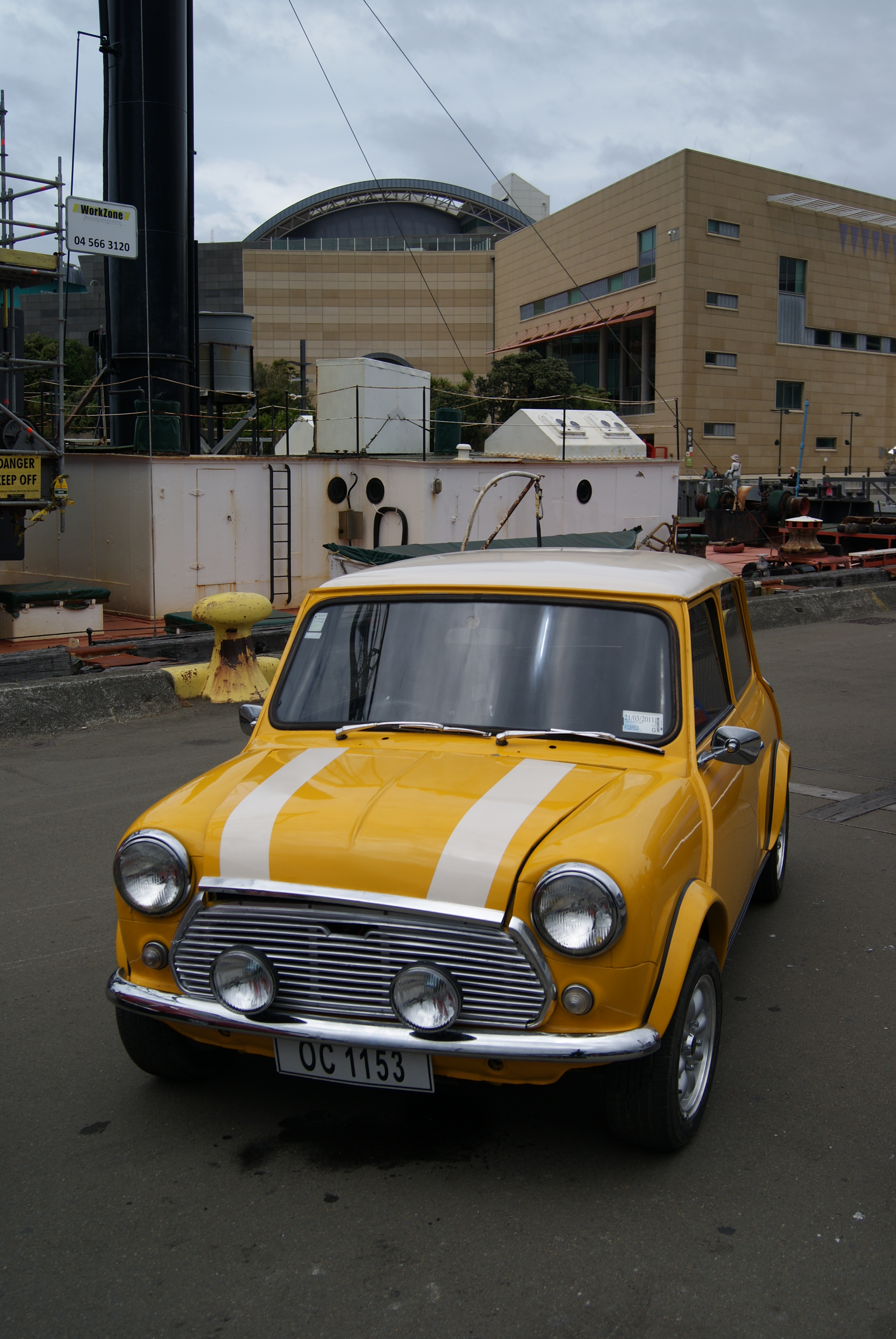 A stunt mini used in the filming of the Bollywood film "Players", a remake of the 1969 UK film "The Italian Job", on location of filming on Taranaki Wharf in Wellington, New Zealand. Te Papa, the museum of New Zealand, is seen in the background.